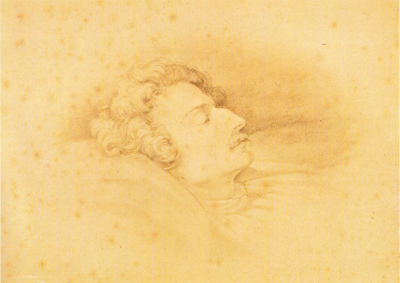 Ludwig Schunke (1810-1834), German Pianist and composer. Drawing by Emil Kirchner, 1834.